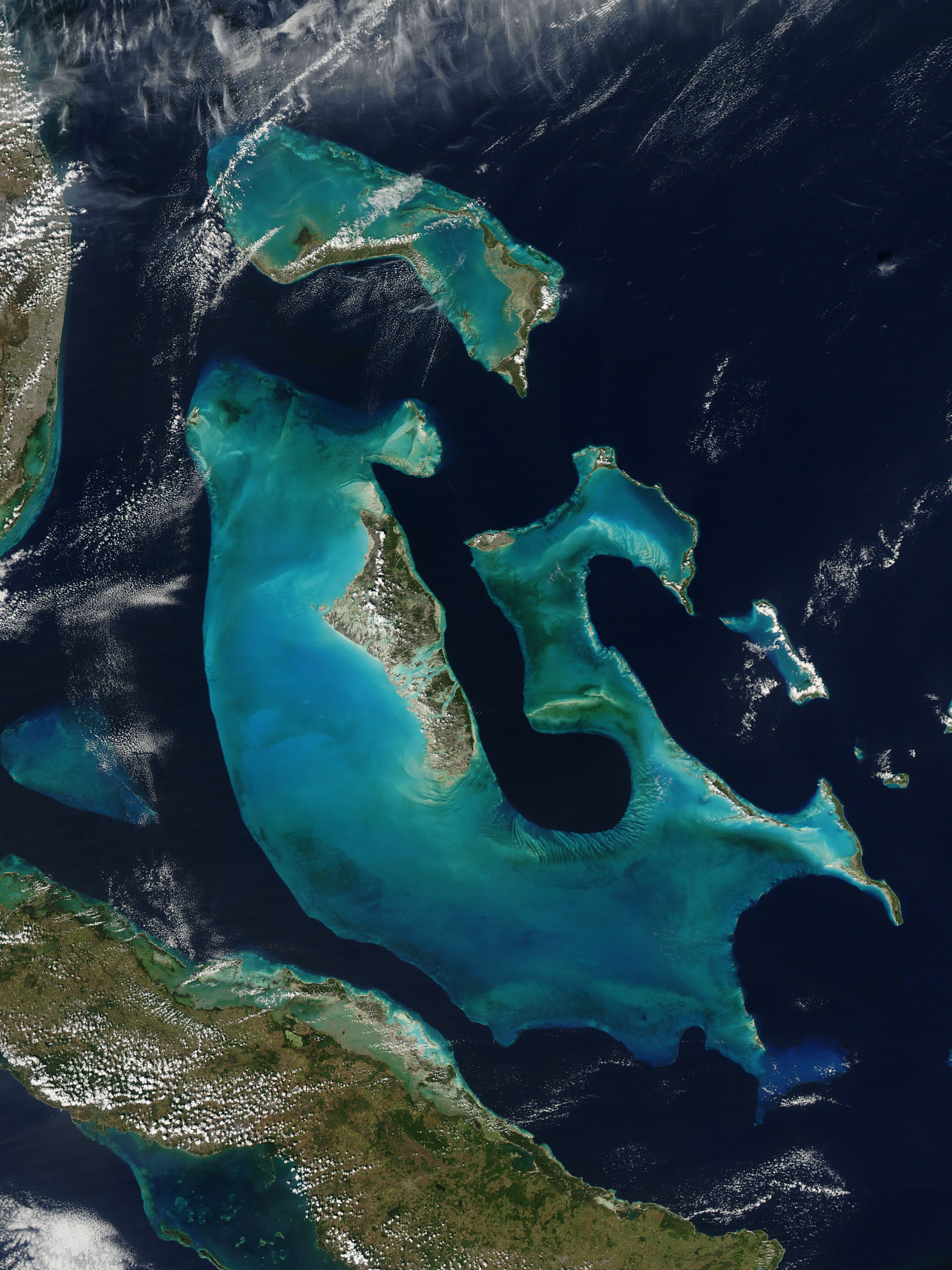 The Bahamas. NASA image created by Jeff Schmaltz, MODIS Rapid Response Team, Goddard Space Flight Center. Caption by Michon Scott. Instrument: Aqua - MODIS